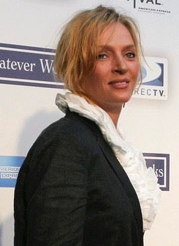 Uma Thurman at the "Whatever Works" Premiere, Tribeca Film Festival 2009